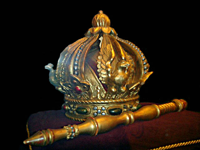 The Mexican imperial crown and scepter as funerary insignia. Wood, gilded, pearl and stone imitation. around 1867. Imperial Furniture Depot, Vienna.